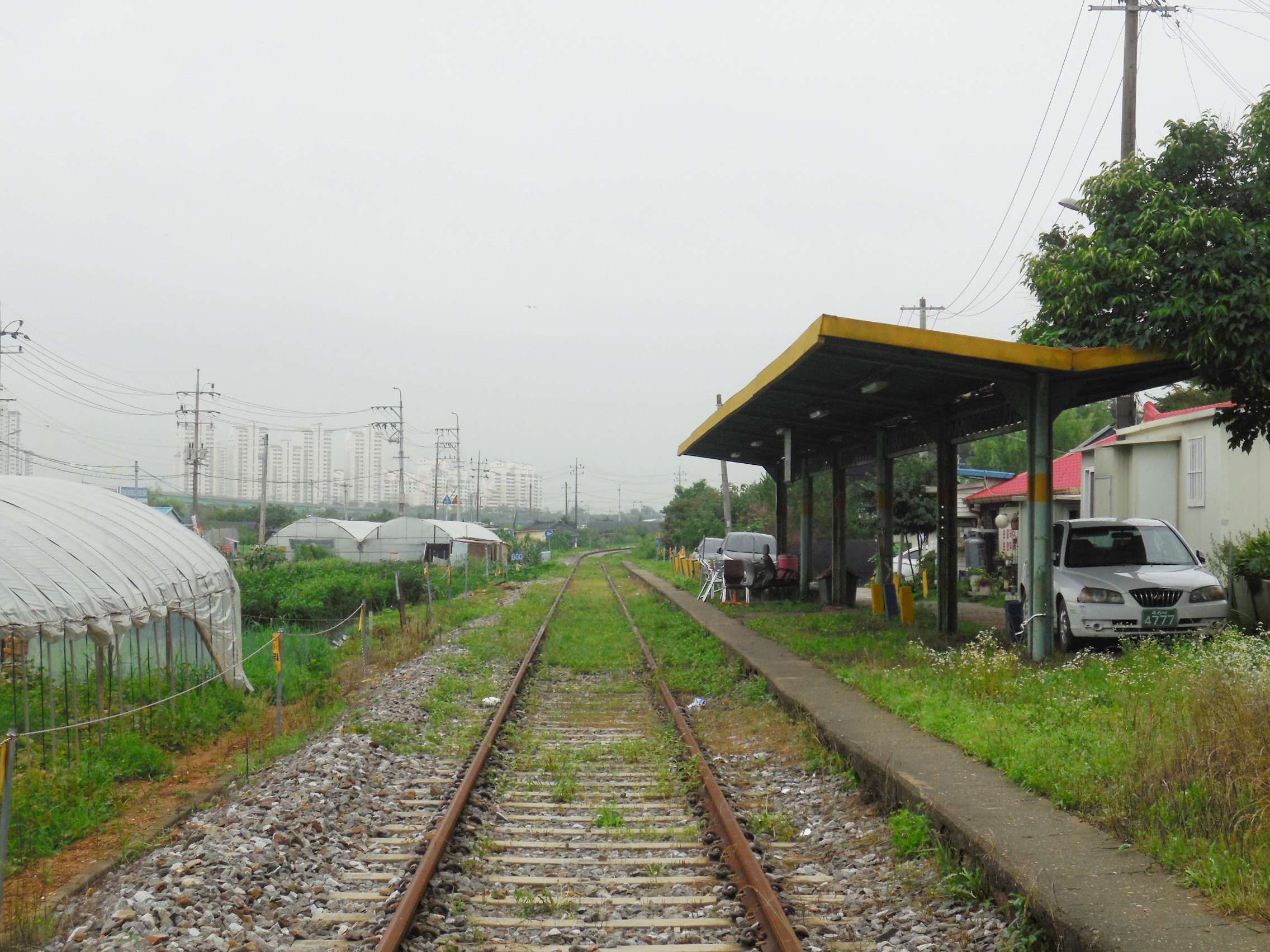 Korail Gyooe Line Daejeong Station Platform.